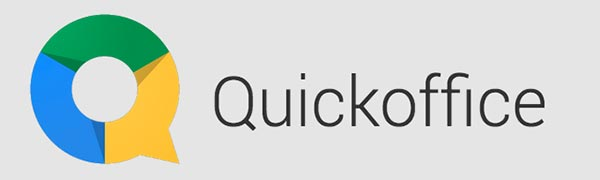 Quickoffice to read and write any document. Powered by Google